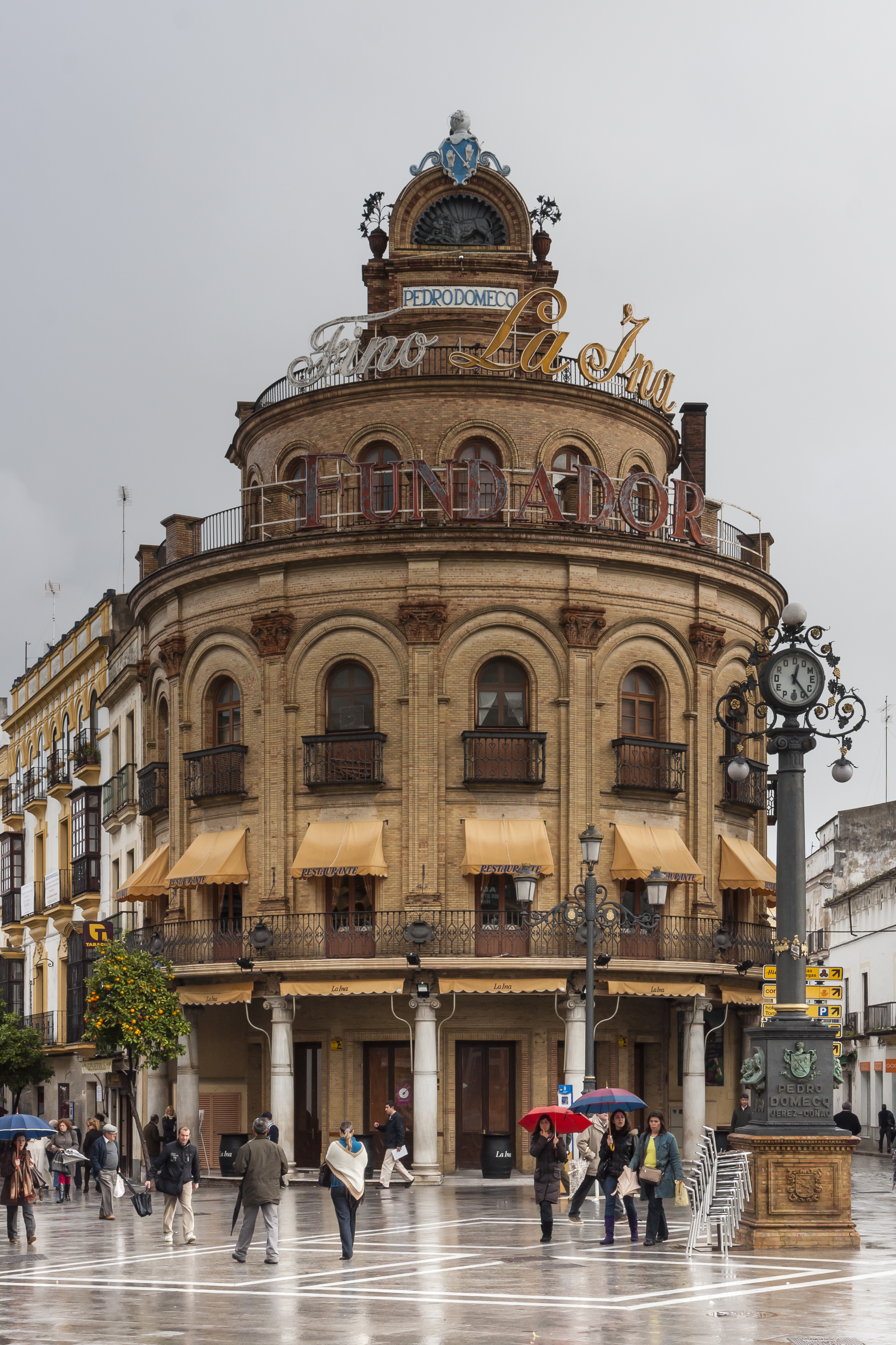 Jerez de la Frontera, Spain: "Gallo Azul", a historical building, built in 1927.